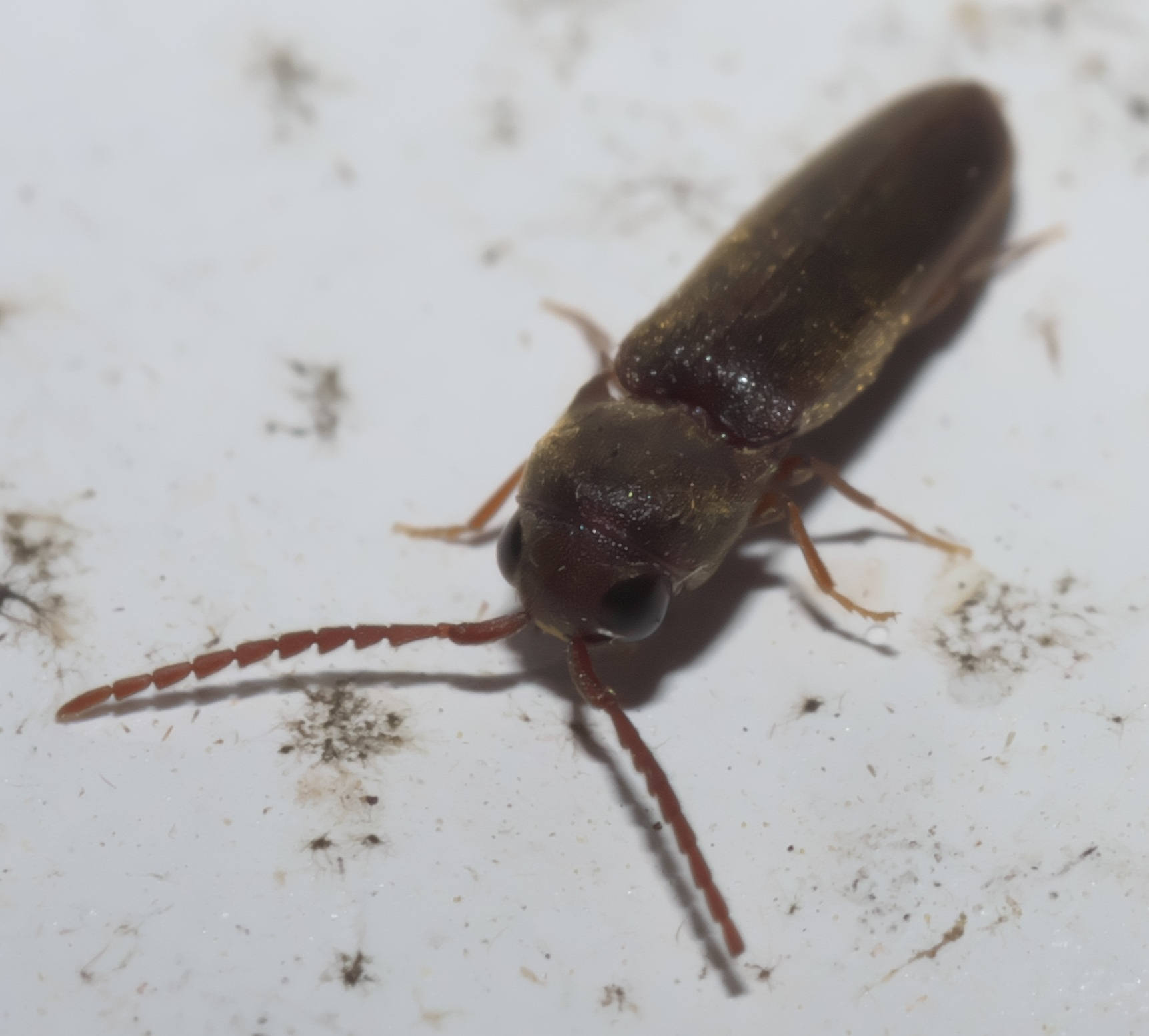 Dirrhagofarsus ernae, Family: False Click Beetles, ID Confidence: 98